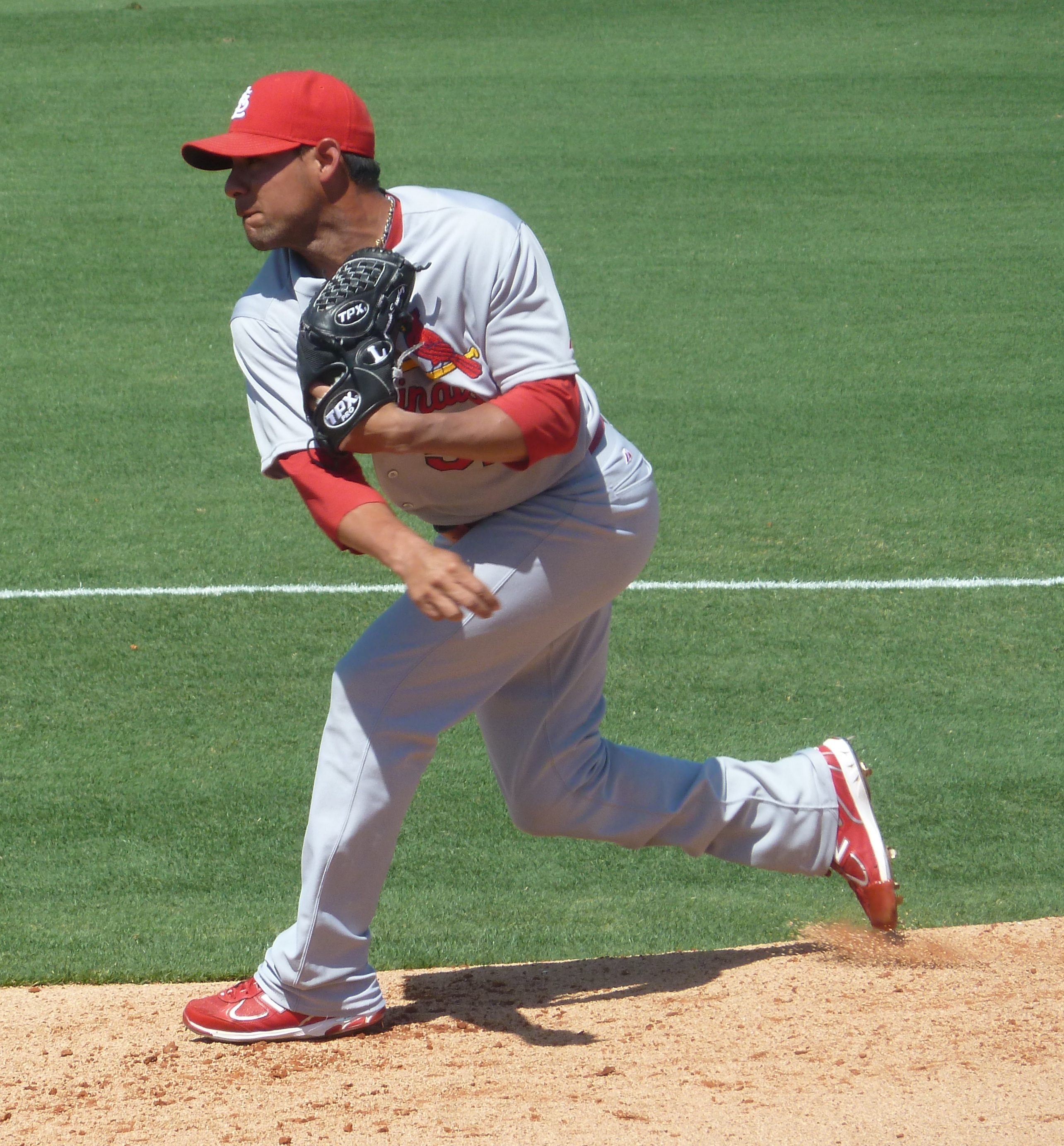 Eduardo Sánchez, Roger Dean Stadium, Jupiter, Florida, March 23, 2012.